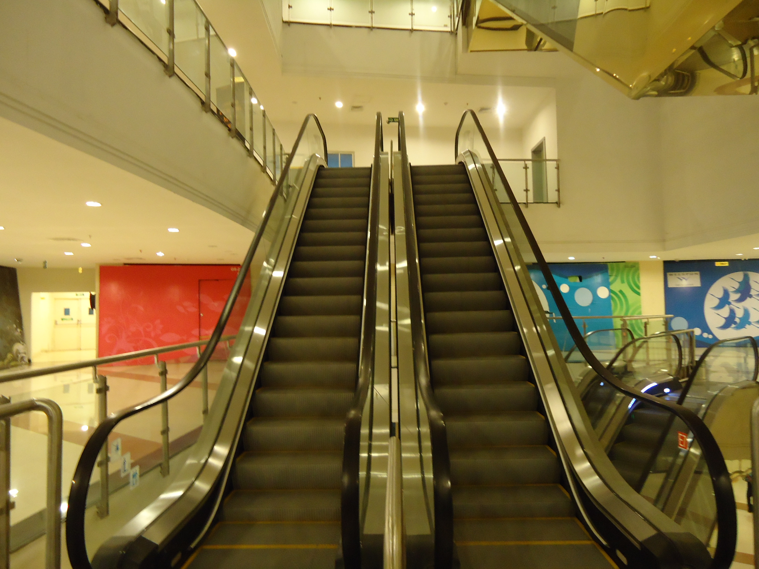 Gold_souk_grande_Escalators